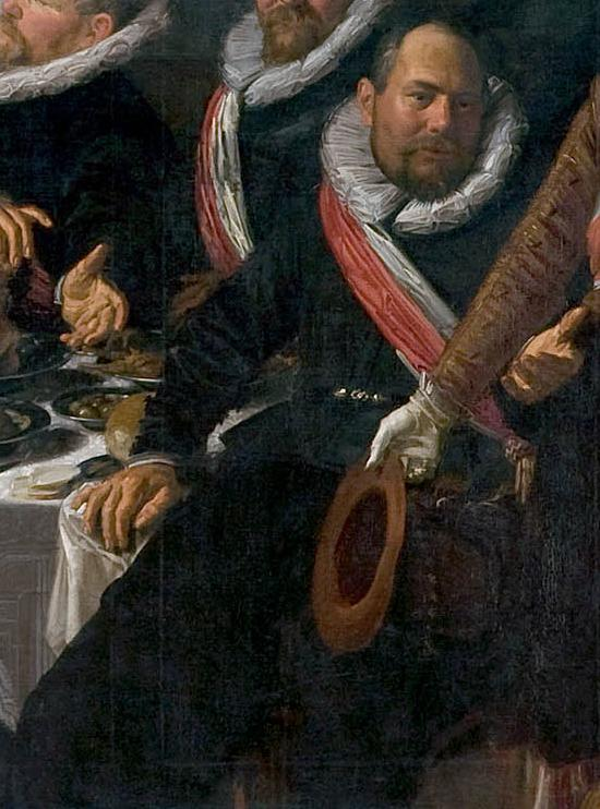 Portrait of Pieter Adriaensz. Verbeek in The Banquet of the officers of the Saint George Civic guard in Haarlem in 1616, detail